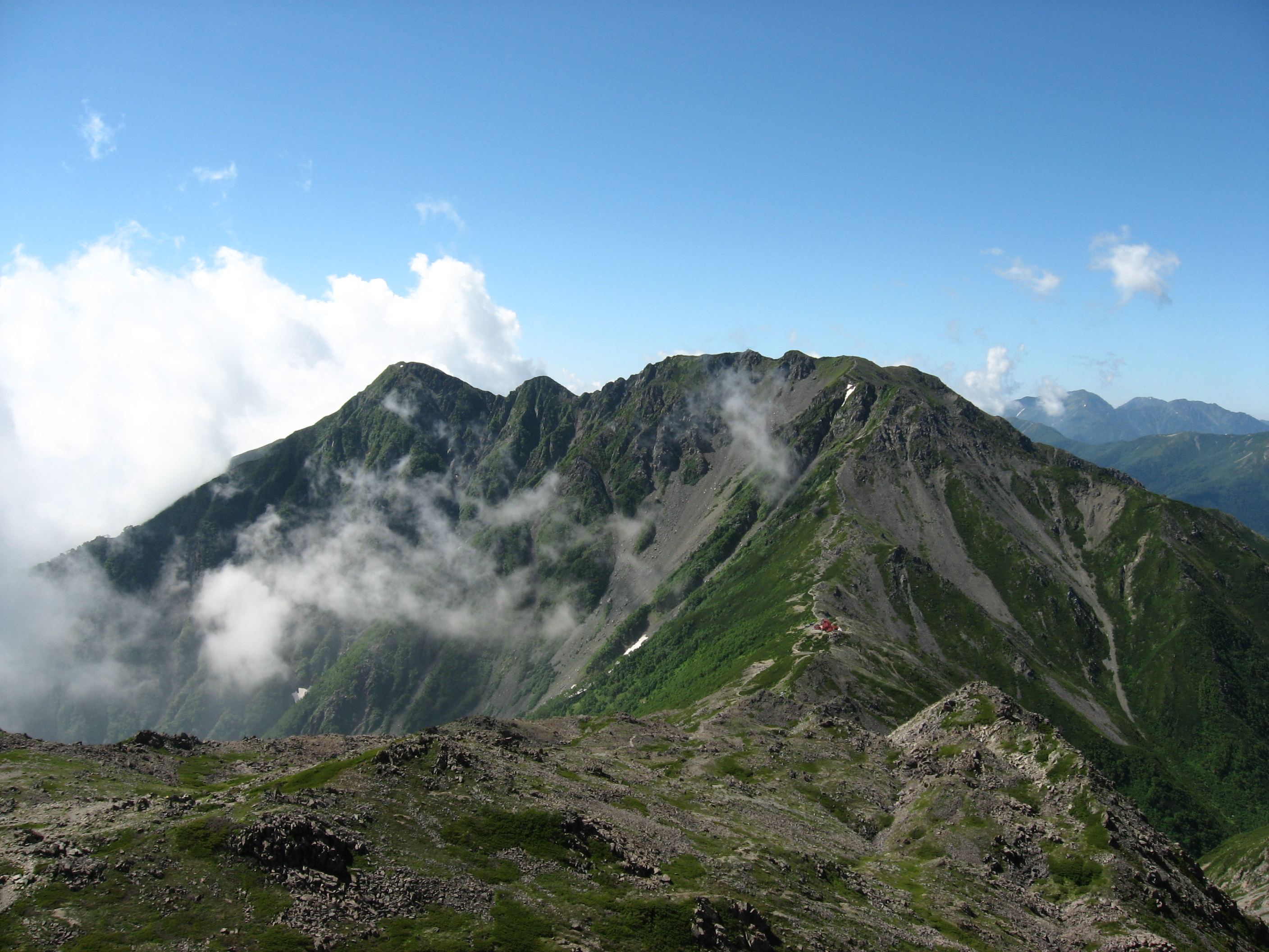 Mount Notoridake as seen from the south side of Mount Ainodake in Akaishi Mountains, Honshu, Japan.